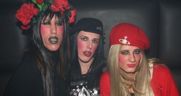 Club Federation @ Liverpool's 2006 Homotopia festival. Held at Society, Saturday 18 November 2006.